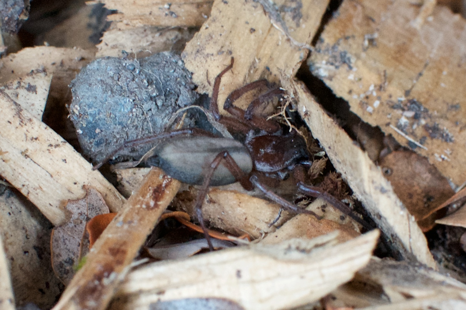 A flattened bark spider, Hemicloea rogenhoferi, photographed at Klondyke Corner in Arthurs Pass National Park, New Zealand, on 7 April 2014. More details on this observation can be found at